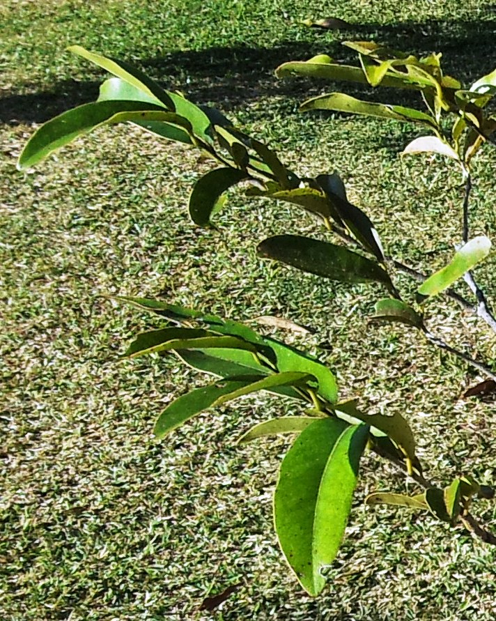 Diospyros tesselaria - Bois d ebene noir - Mauritius